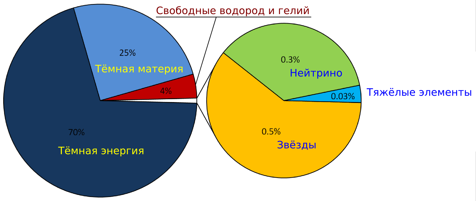 A pie of pie chart illustrating the cosmological composition of the universe.